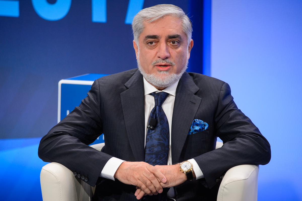 Dr. Abdullah Abdullah, Chief Executive of the Government of the Islamic Republic of Afghanistan, speaks during one of the Halifax Chats of the 2017 Halifax International Security Forum.